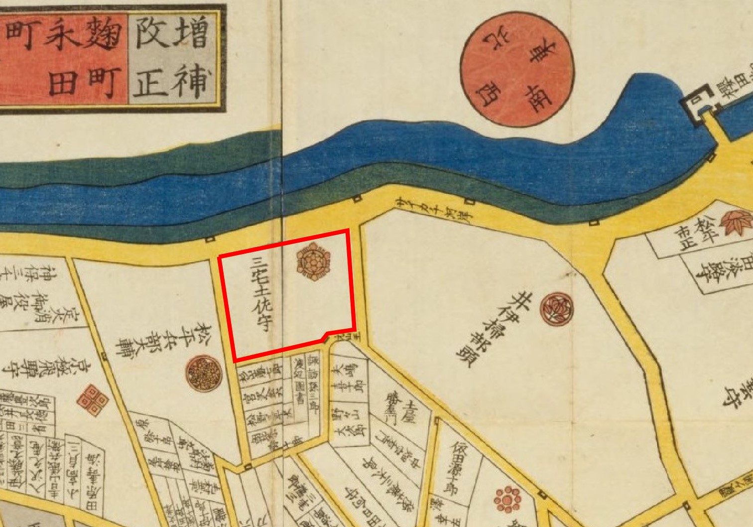 Residence of Miyake clan at Edo